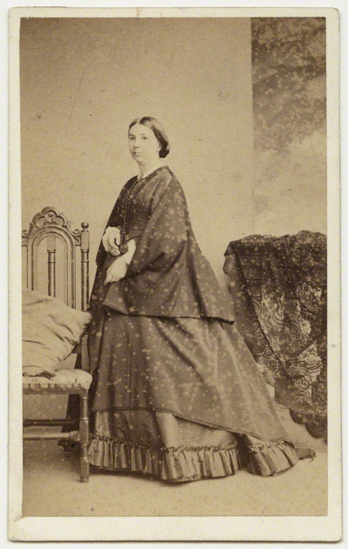 Albumen carte-de-visite, Margaret Oliphant Wilson Oliphant, by Thomas Rodger, c. 1860s